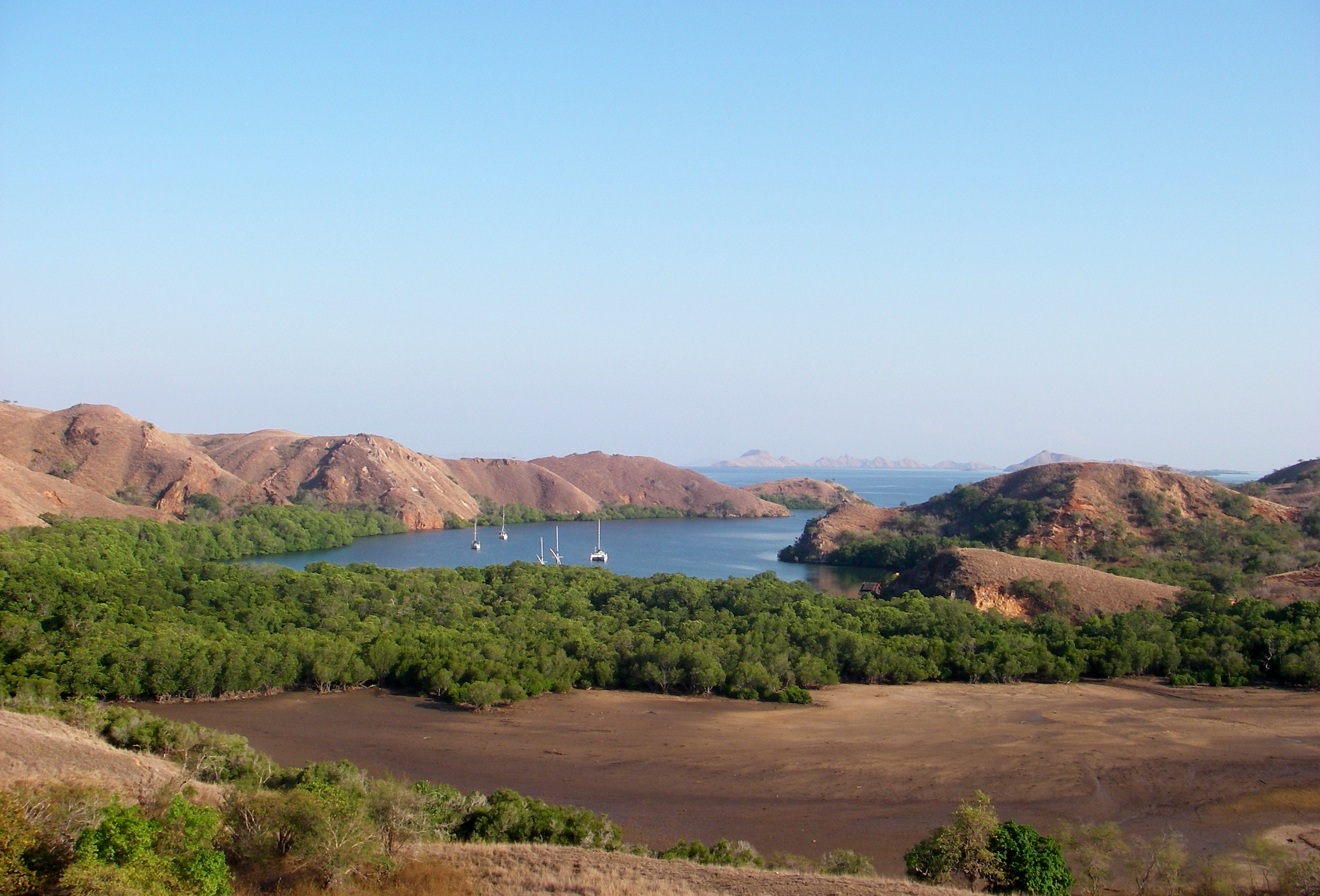 Komodo Island, Indonesia (2009)